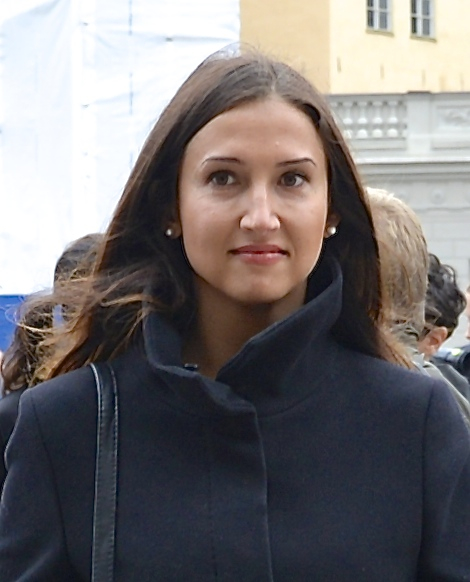 Aida Hadžialić as newly appointed minister in Stockholm October 3, 2014.